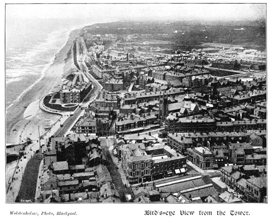 Birds eye view of Blackpool Tower 1899